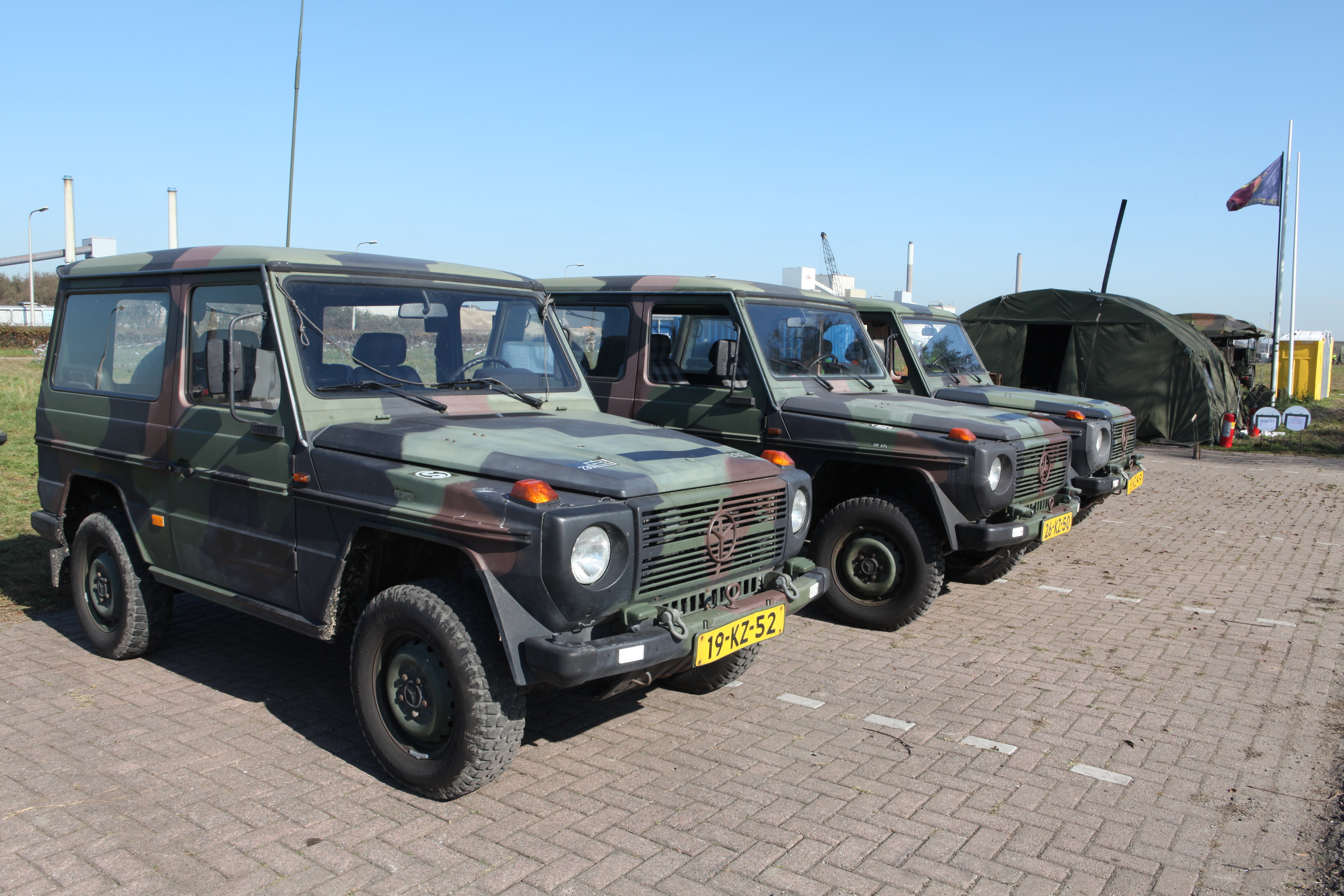 Mercedes-Benz 290 GD Royal Netherlands Army